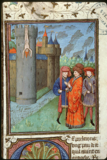 renaud and aimery